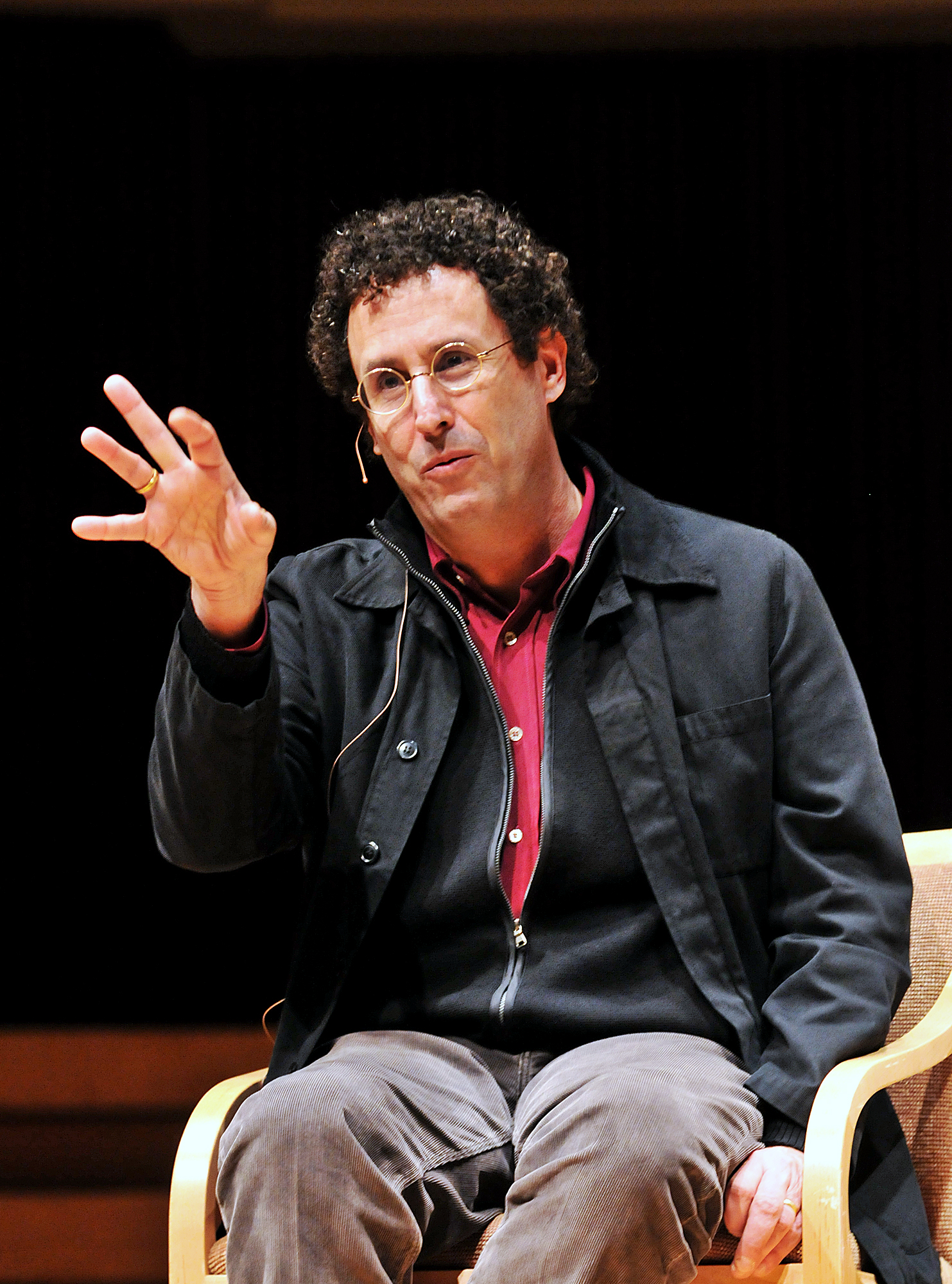 Tony Kushner speaks at the University of Maryland in February 2011.